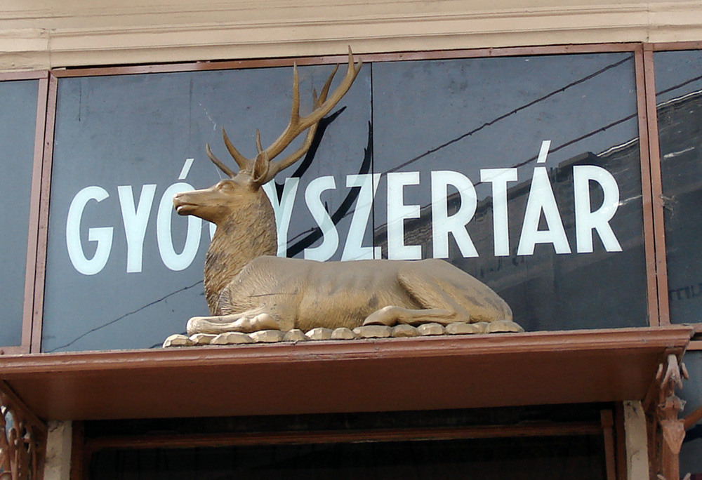 Golden deer sculpture above the pharmacy's entrance